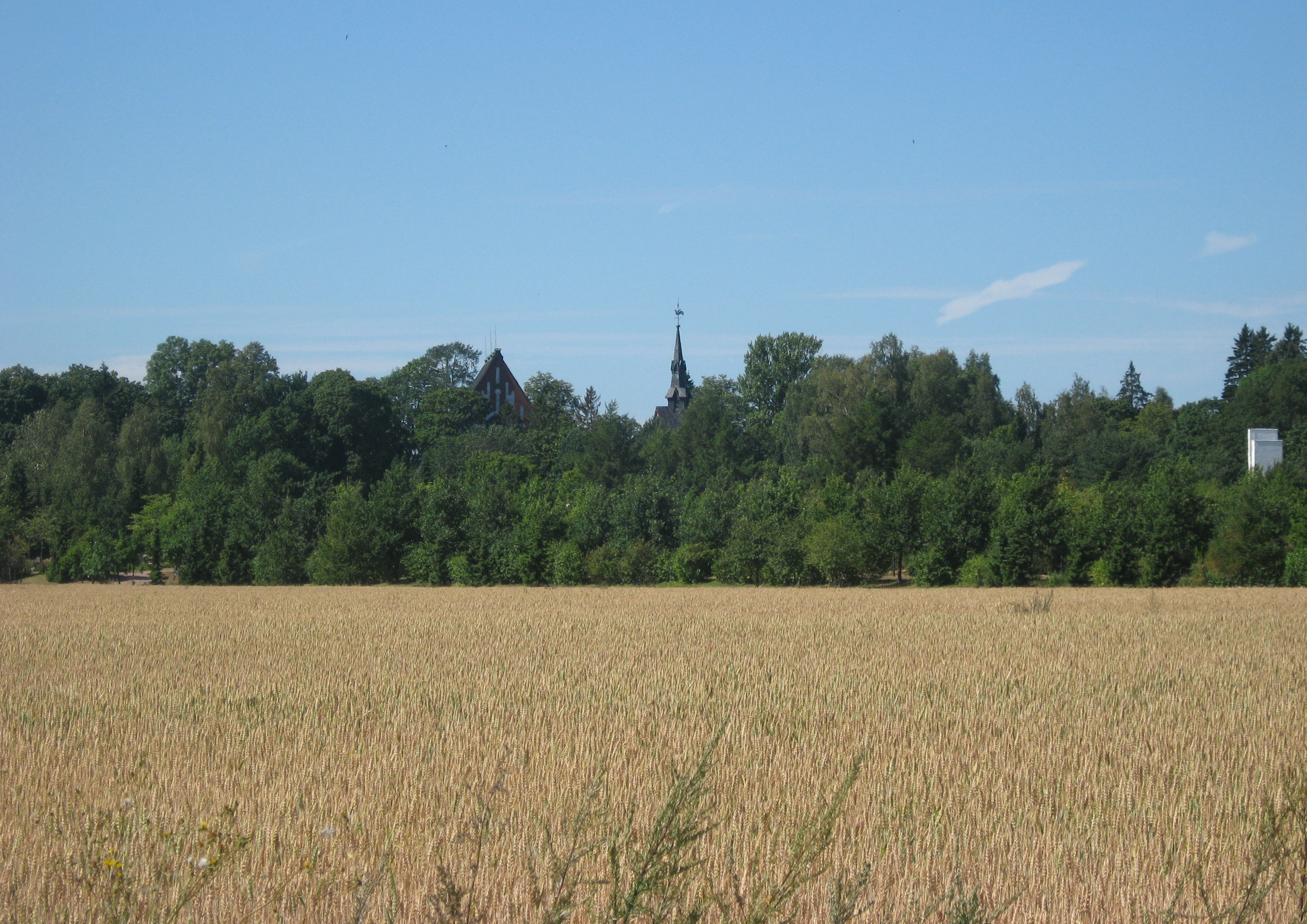 The Church of St. Lawrence and the cemetery, seen from the River Kerava, Vantaa, Finland